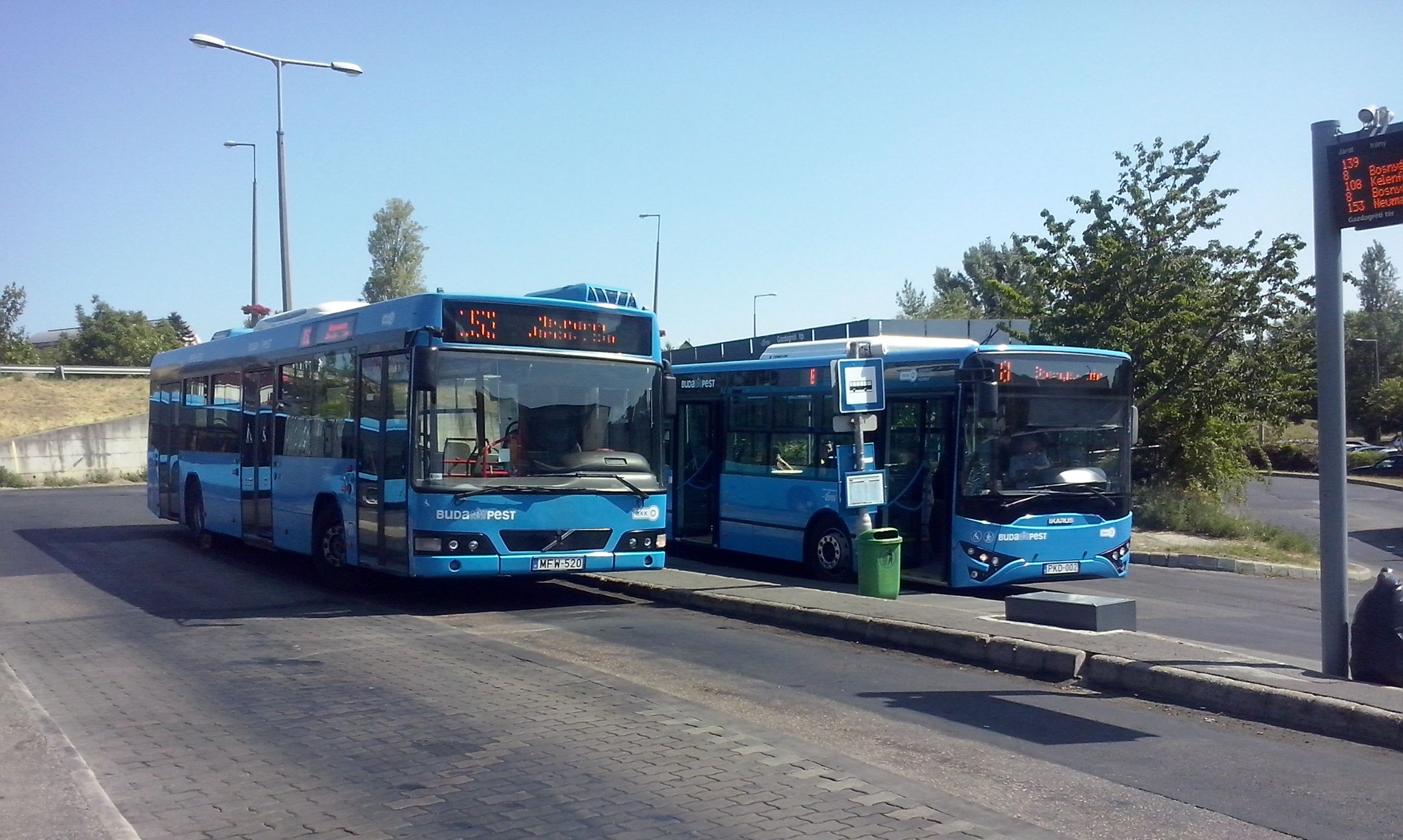 Volvo B7L bus (reg. MFW-520) on the line number 153 and Ikarus V127 bus (reg. PKD-002) on the line number 8 in Gazdagréti tér.